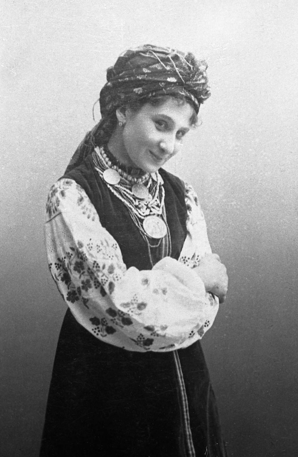 Ukrainian stage actress Maria Zankovetska in the role of Ihva Tsvirkunka in Mykola Lysenko's operetta "Chornomortsi", 1892.